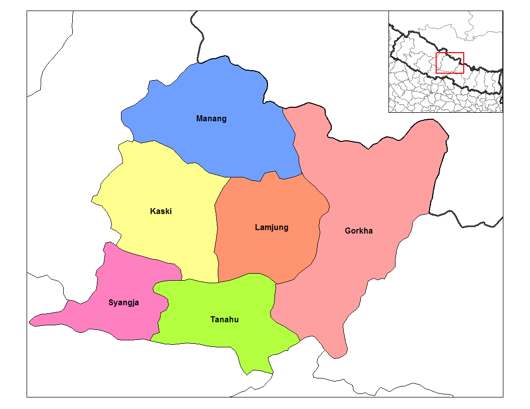 Map of the districts of Gandaki Zone (wp-EN) in Nepal. Created by Rarelibra 18:57, 18 September 2006 (UTC) for public domain use, using MapInfo Professional v8.5 and various mapping resources.